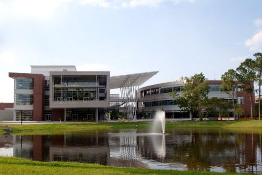 Student Union at the University of North Florida, in Jacksonville, Florida, United States.